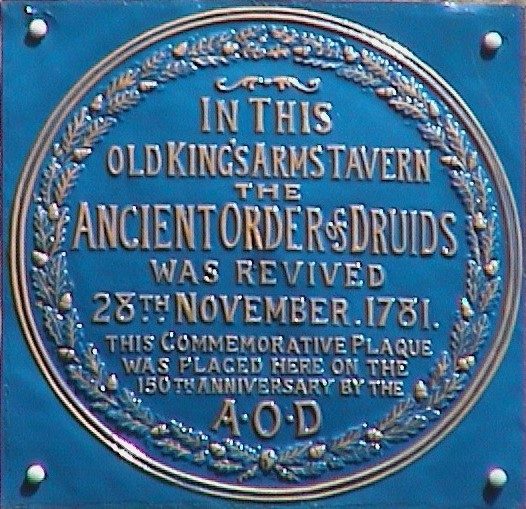 AOD plaque London 1781